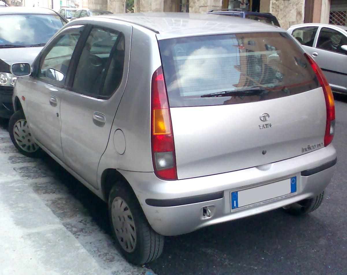 Tata Indica V1 silver